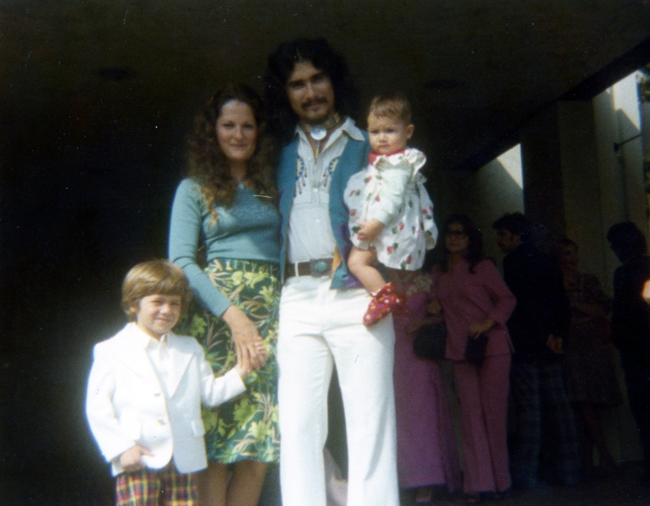 Family (mother, father, son, daughter)